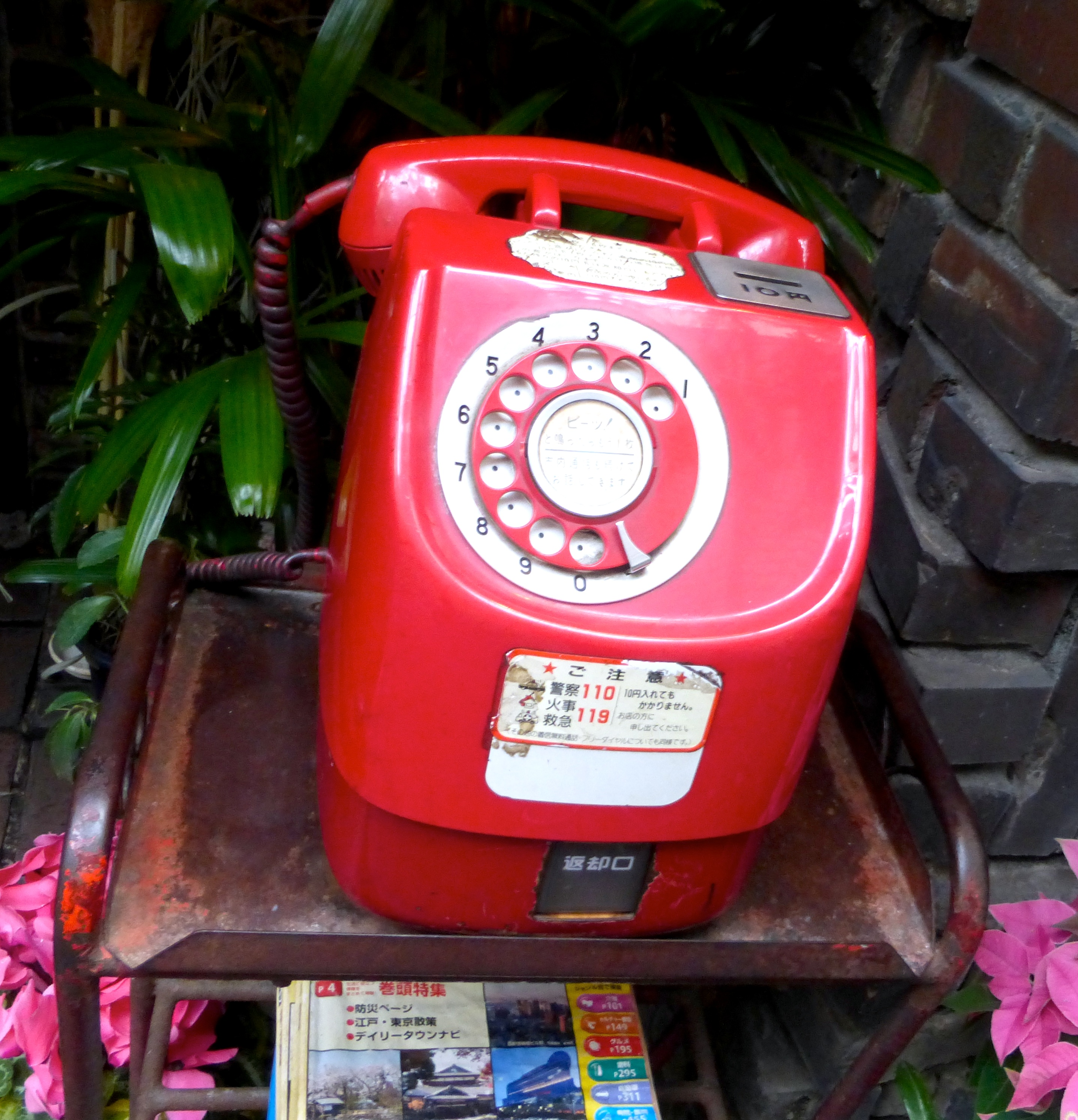 昭和時代に普及した赤電話 (Red payphone that used to be common in the Showa era)